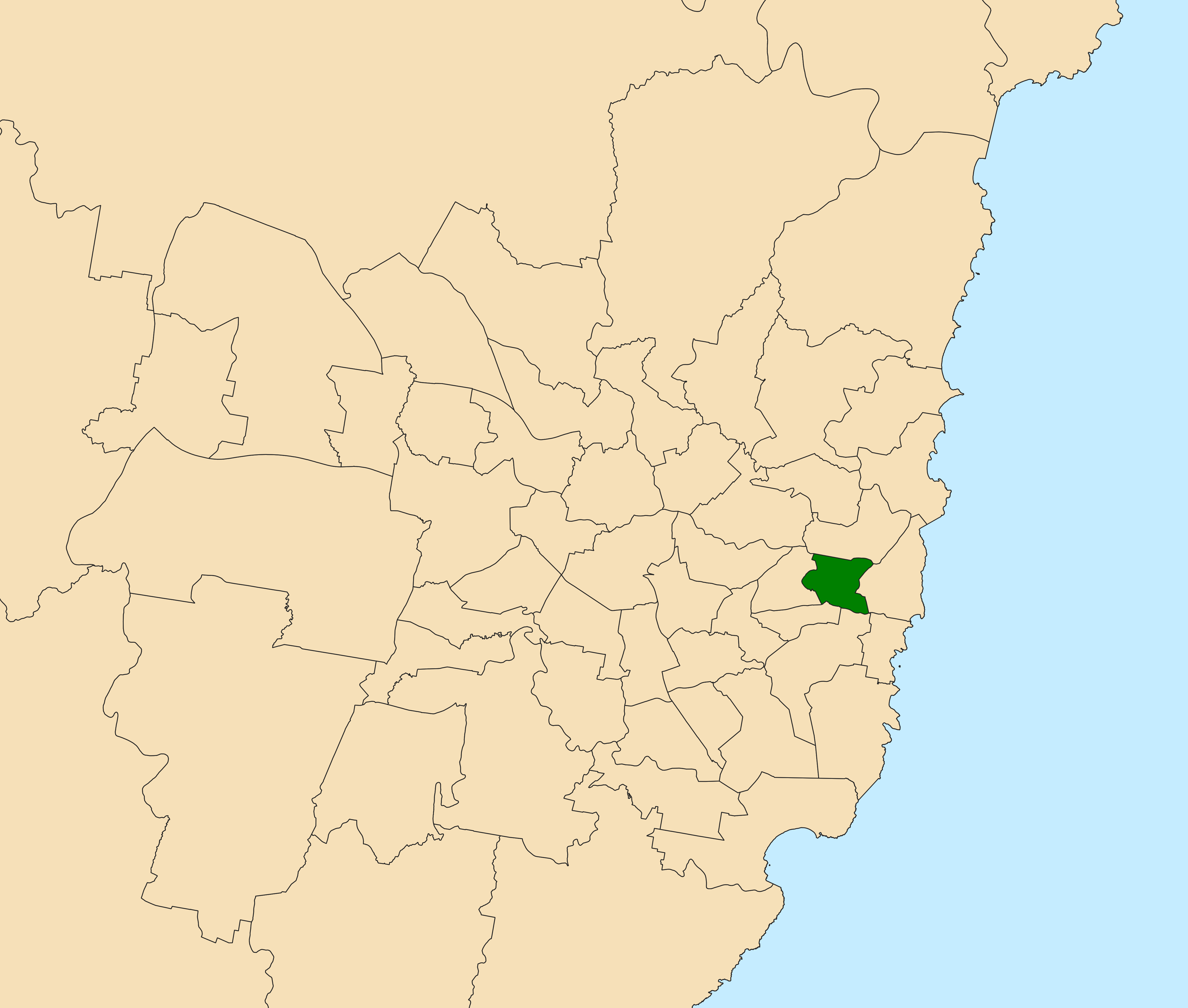 Location of the state electoral district of Sydney (dark green) in the metropolitan Sydney area as of the 2019 New South Wales state election. Incorporates or developed using Administrative Boundaries ©PSMA Australia Limited licensed by the Commonwealth of Australia under Creative Commons Attribution 4.0 International licence (CC BY 4.0).